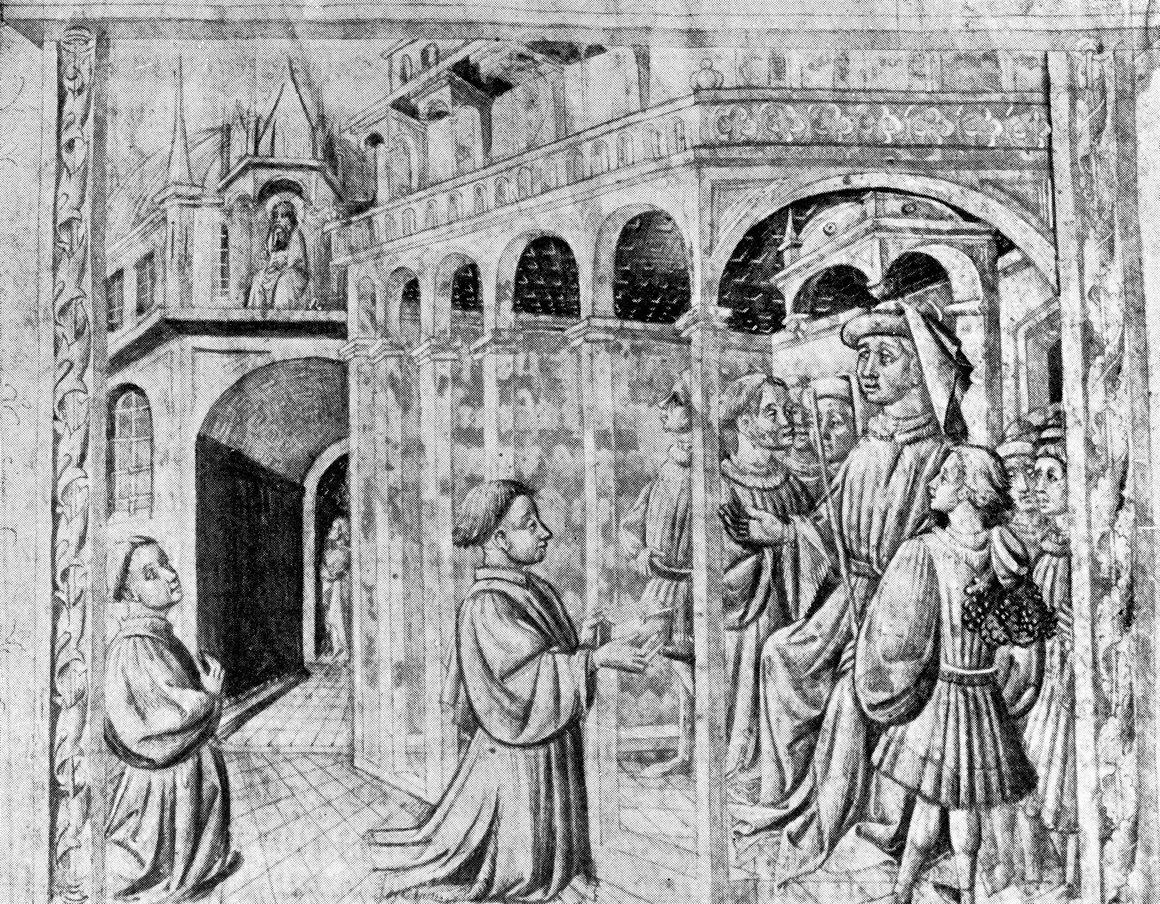 Roger Bacon presenting one of his Works to the Chancellor of Paris University. Iconographic Collections Keywords: Roger Bacon